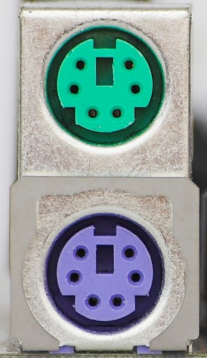 PS/2 Ports of an ATX motherboard